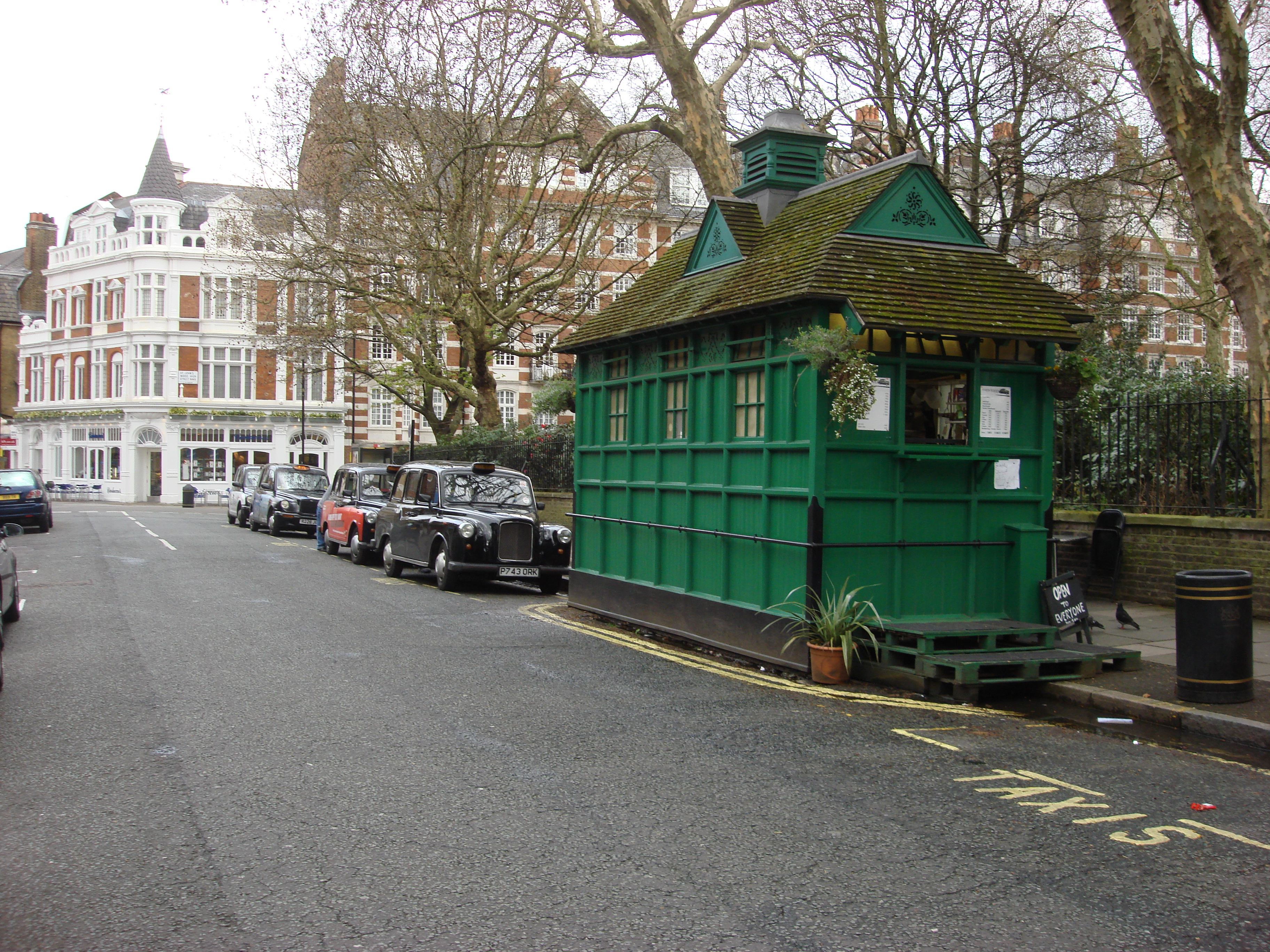 Cabmen's Shelter, Wellington Place. One of Thirteen Cabmen's Shelters in London run by the Cabmen's Shelter Fund